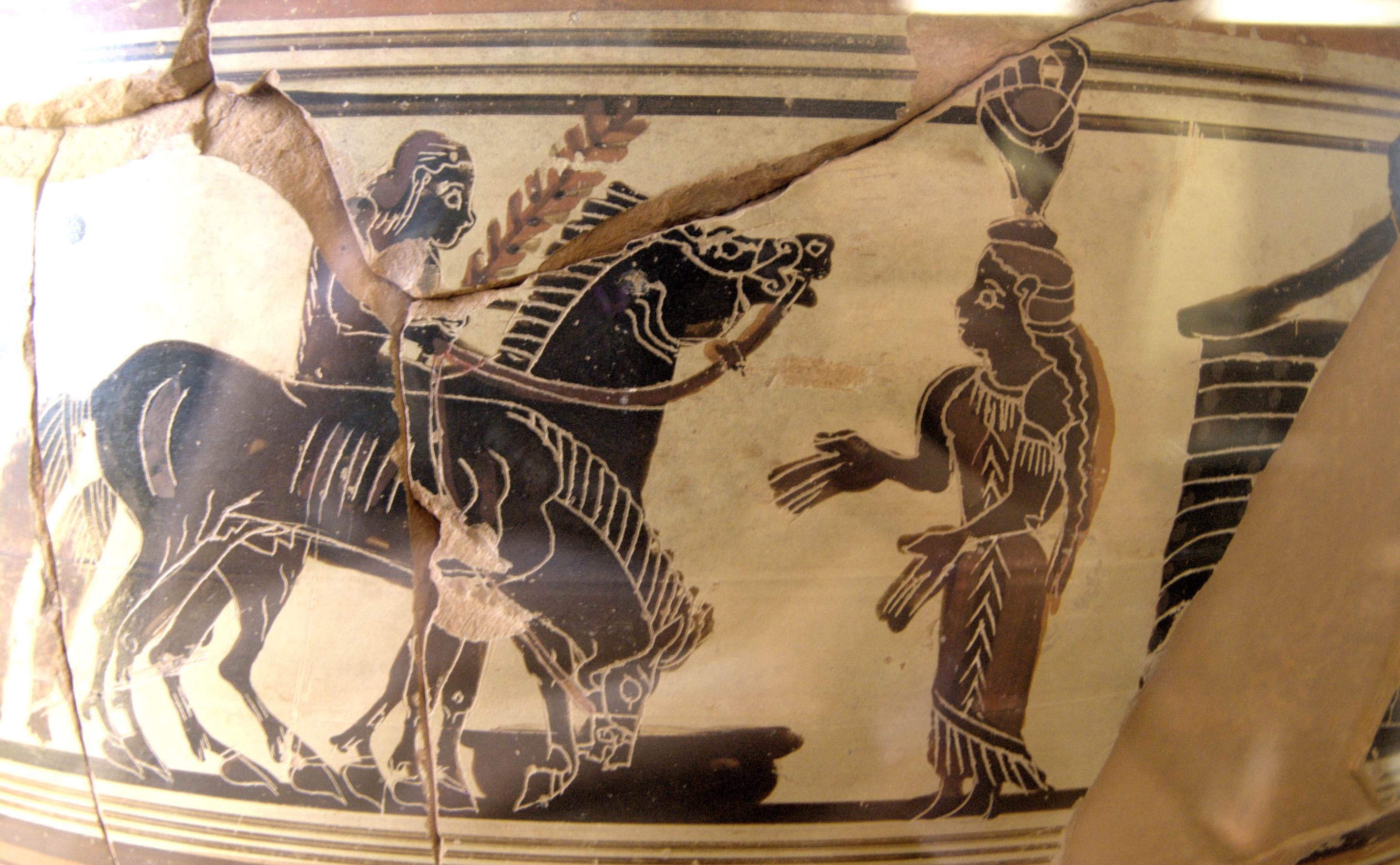 Troilus and Polyxena at the fountain (Achilles is ambushing on the right). Laconian black-figured dinos, 560–540 BC.